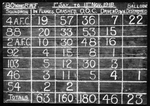 Australian War Memorial summary: "Serny, France. 1918-11. Wing score board recording the results of various flying operations performed by No. 80 Wing RAF. The aircraft tally board was probably in the briefing room or mess of the base and appears to consist of chalk marks on a wall rather than a special board. It is dated 1918-07-01 to 1918-11-11. The squadrons listed are No. 4 Squadron, Australian Flying Corps (AFC), No. 88 Squadron RAF, No. 2 Squadron AFC, No. 92 Squadron RAF, No. 103 Squadron RAF, No. 46 Squadron RAF, and No. 54 Squadron RAF. The other columns are headed `In Flames', `Crashed', `O.O.C.' (Out of Control), `Driven Down' and `Balloons Destroyed'."